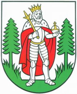 Oslany - welcome sign -Detail